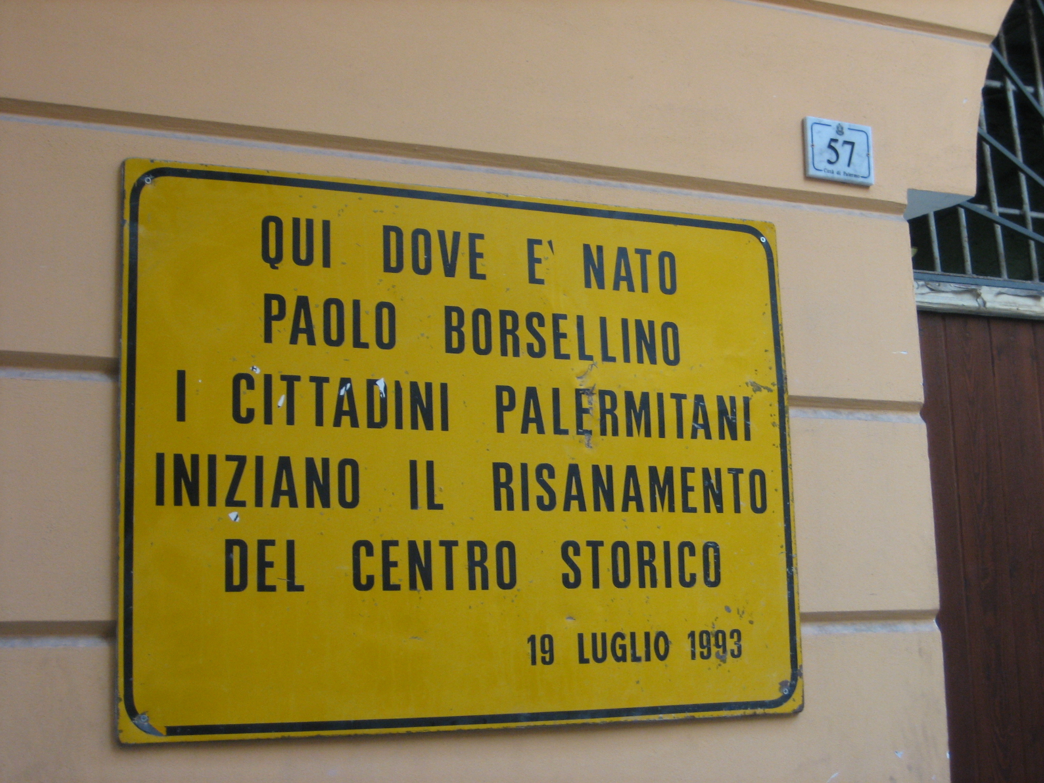 Inscription in Palermo, Via Vetrertia: Here Paolo Borsellino was born ans now the citizens of Palermo rebuild the city, 13. Juli 1993.